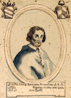 Cardinal István Báncsa in 1255